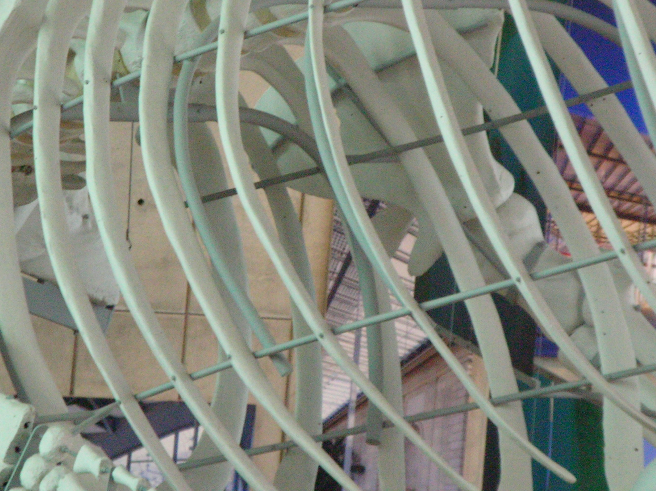 The rib cage of the skeleton of a Blue Whale (Balaenoptera musculus) at the California Academy of Sciences in San Francisco.